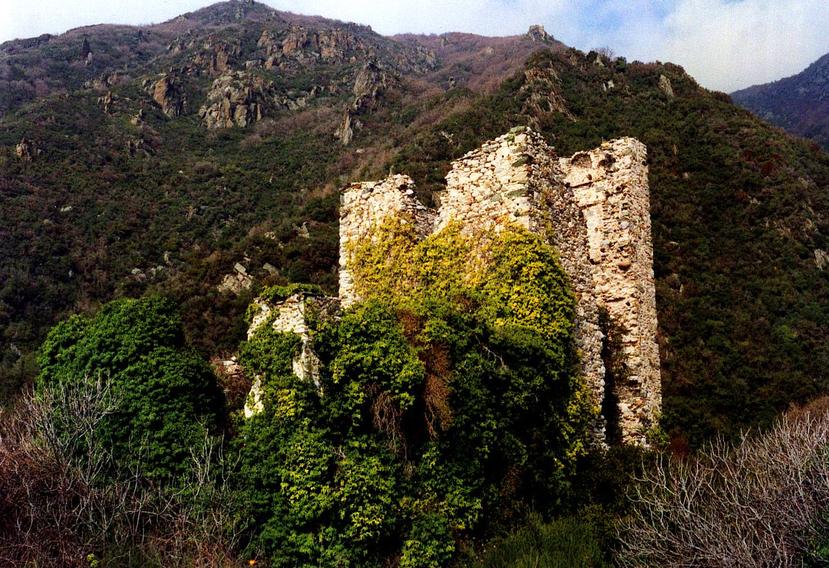 The pirate watching tower near Dafni, Holy Mount, Athos Greece